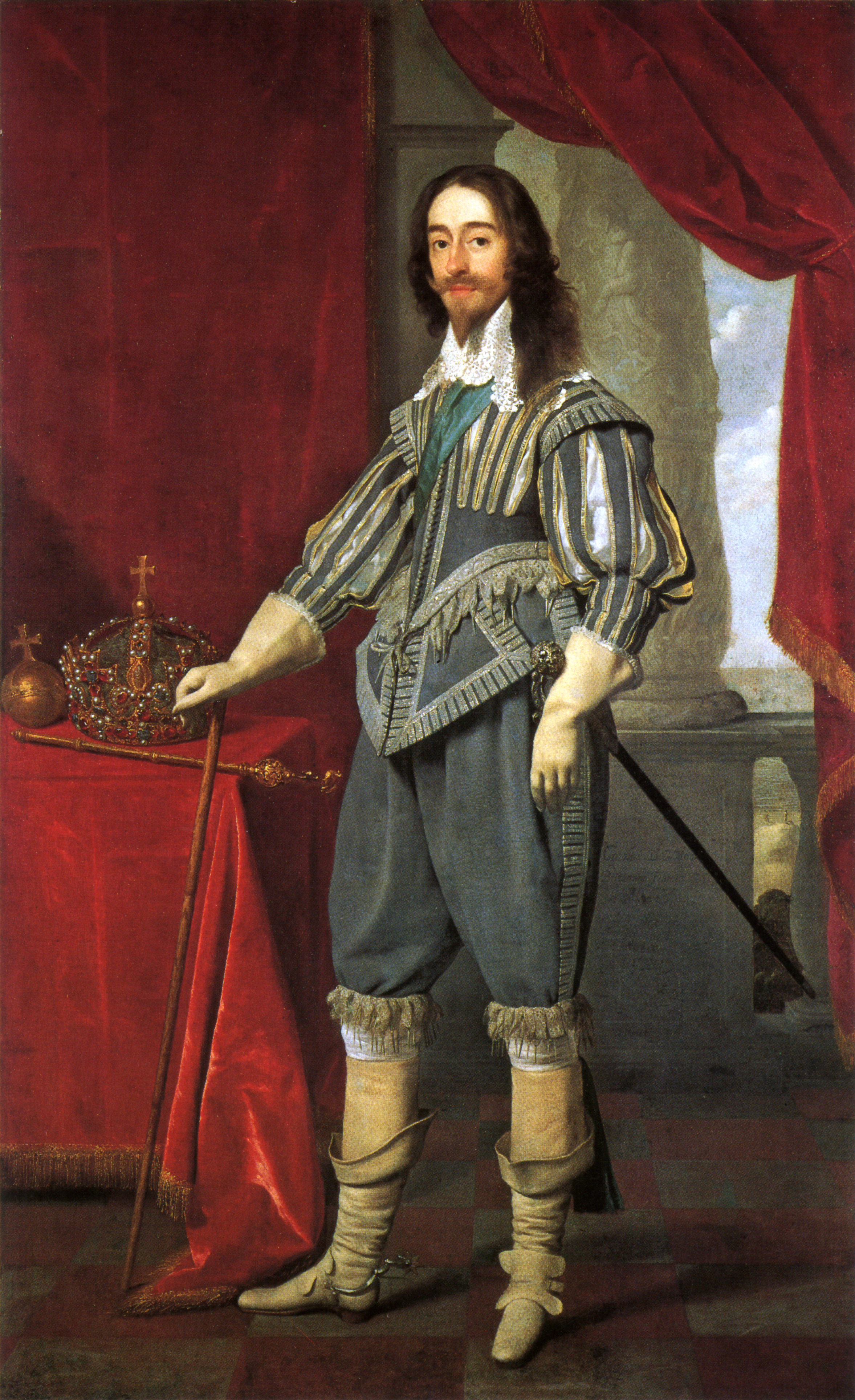 This image is a JPEG version of the original PNG image at File: Charles I by Daniel Mytens.png. Generally, this JPEG version should be used when displaying the file from Commons, in order to reduce the file size of thumbnail images. However, any edits to the image should be based on the original PNG version in order to prevent generation loss, and both versions should be updated. Do not make edits based on this version. See here for more information.